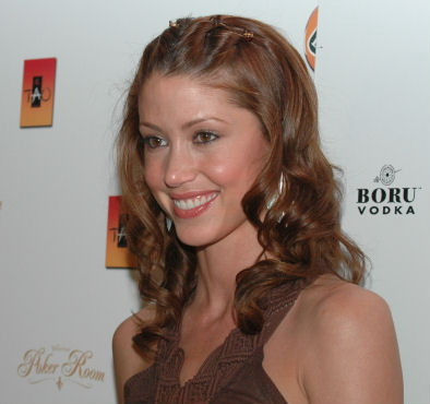 Shannon Elizabeth in 2006.